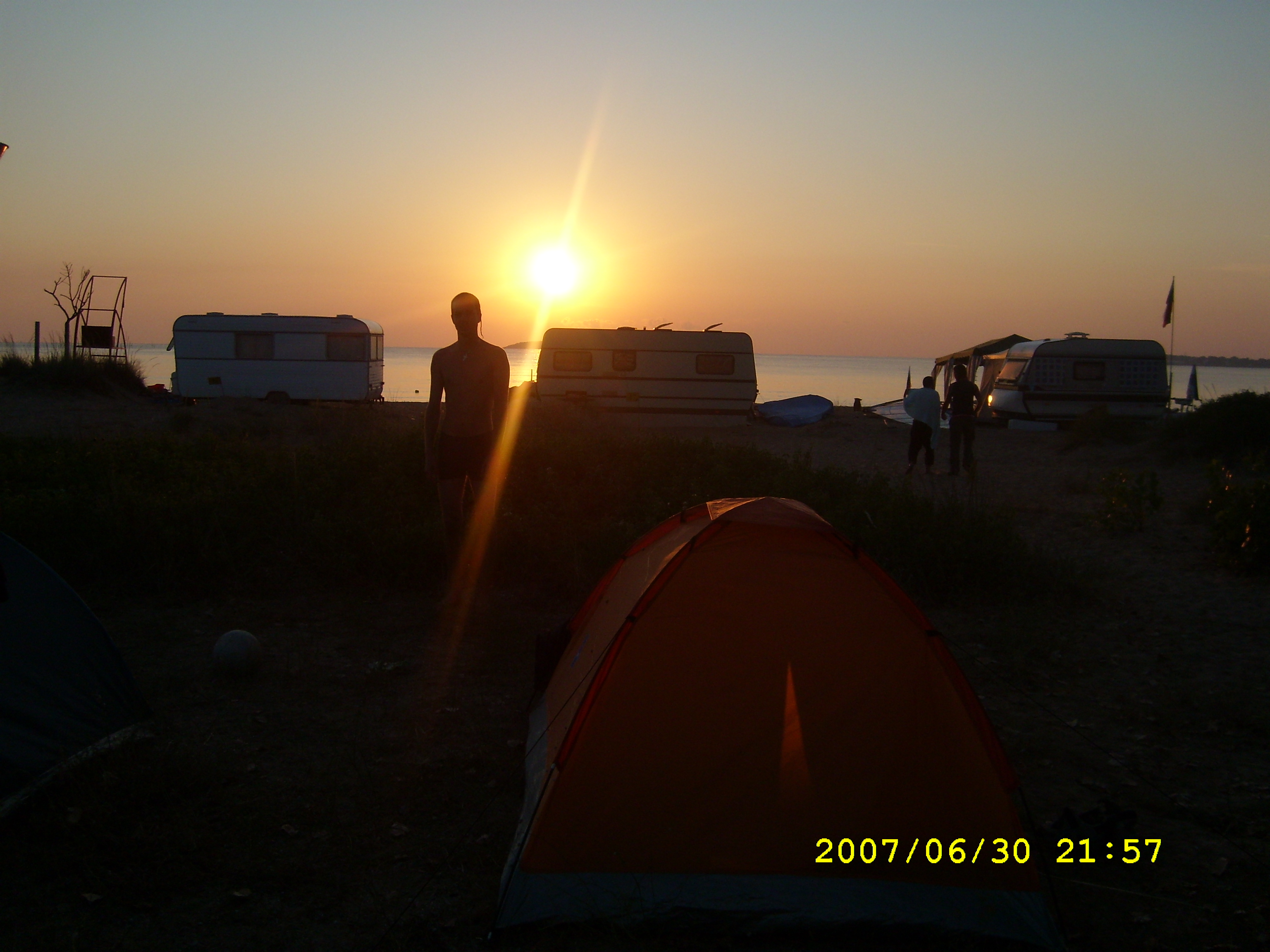 July Morning at Gradina Camping, Chernomorets, Bulgaria